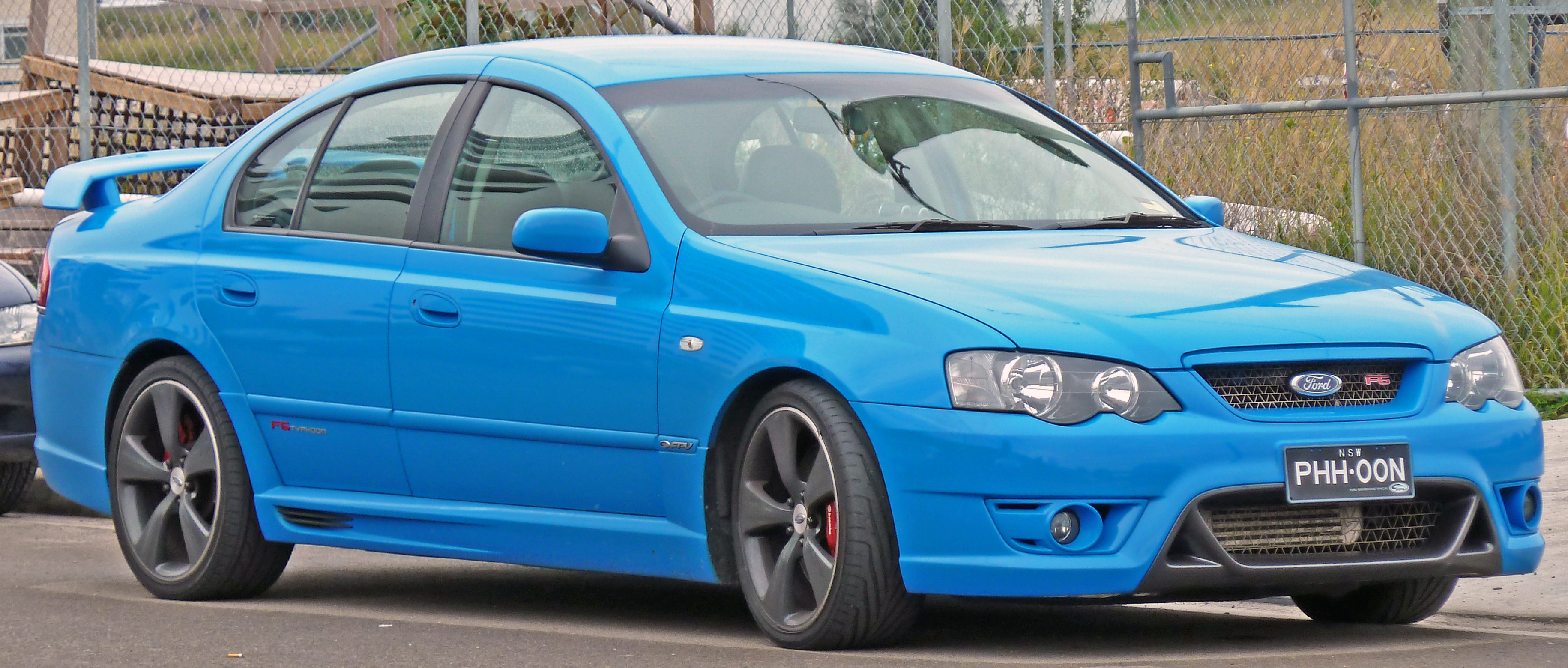 2005–2006 FPV F6 Typhoon (BF) sedan. Photographed in Zetland, New South Wales, Australia.